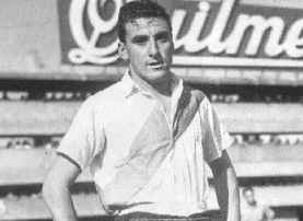 This is a photograph of Nestor Rossi taken during his time with River Plate in Argentina. He played his last game for the club in 1958